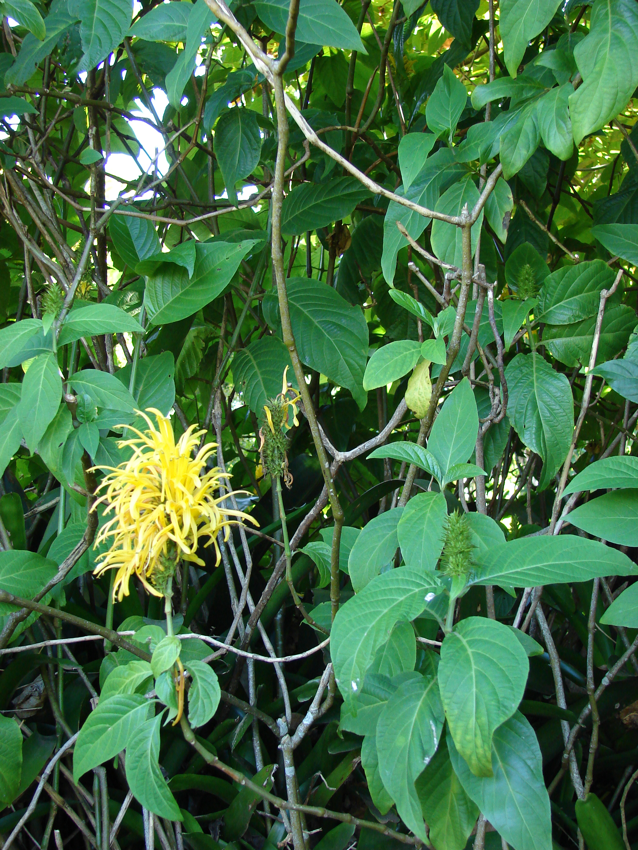 Justicia aurea (flowering habit). Location: Maui, Enchanting Floral Gardens of Kula